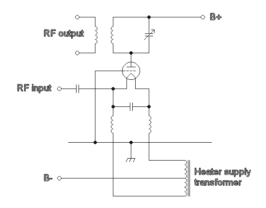 A grounded grid triode RF amp stage, like the tuned grid drawing the decoupling and neut. are not shown